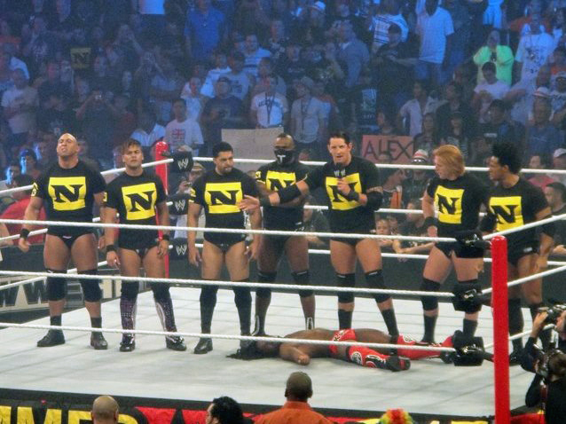 The Nexus (from left to right: Skip Sheffield, Justin Gabriel, David Otunga, Michael Tarver, Wade Barrett, Heath Slater, and Darren Young, standing over Kofi Kingston at SummerSlam on August 15, 2010.